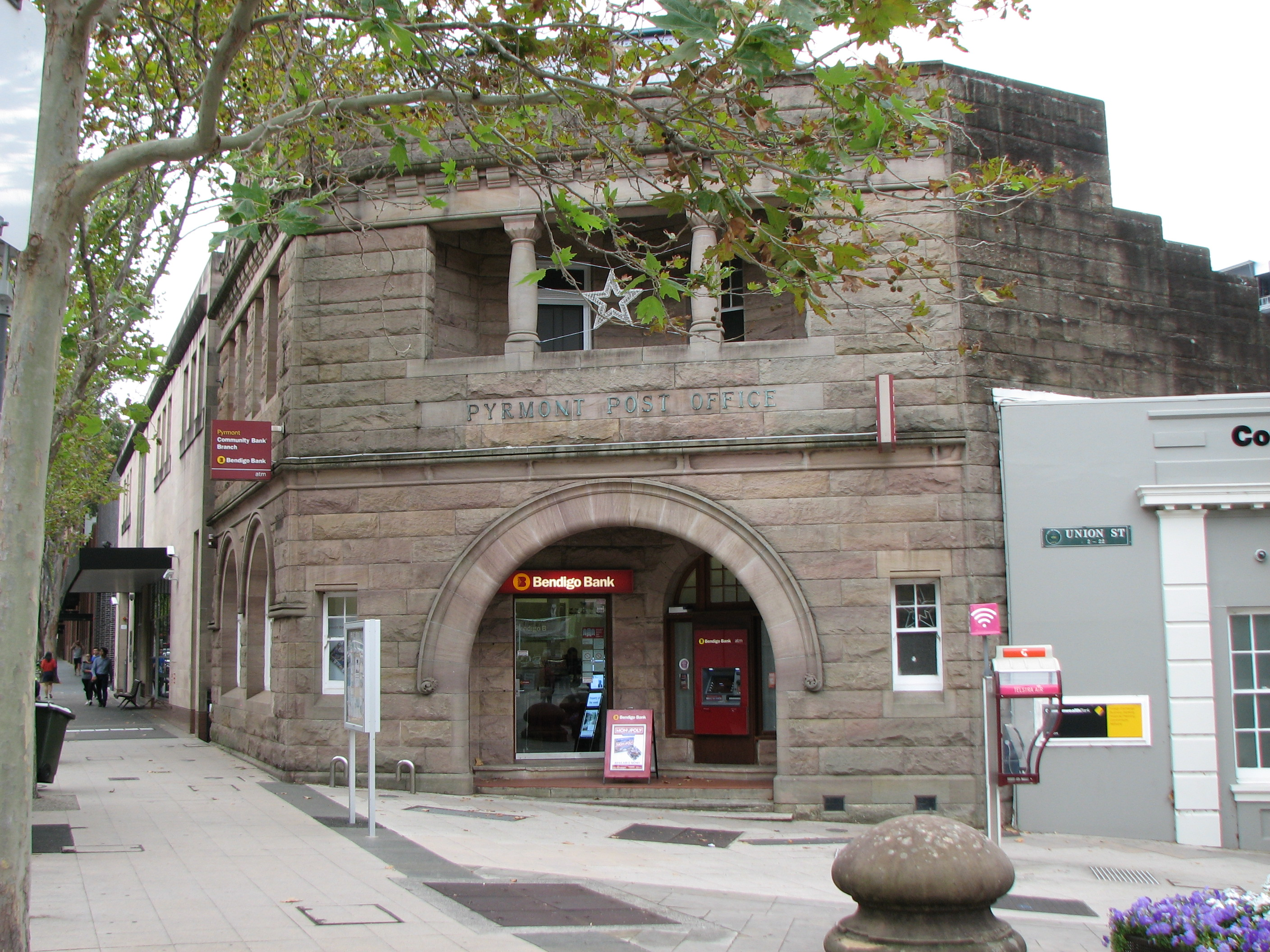 This building is listed on the NSW Heritage Register